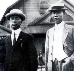 Syng-man Rhee and Park Yong-Man. 1913.4. in Hawaii